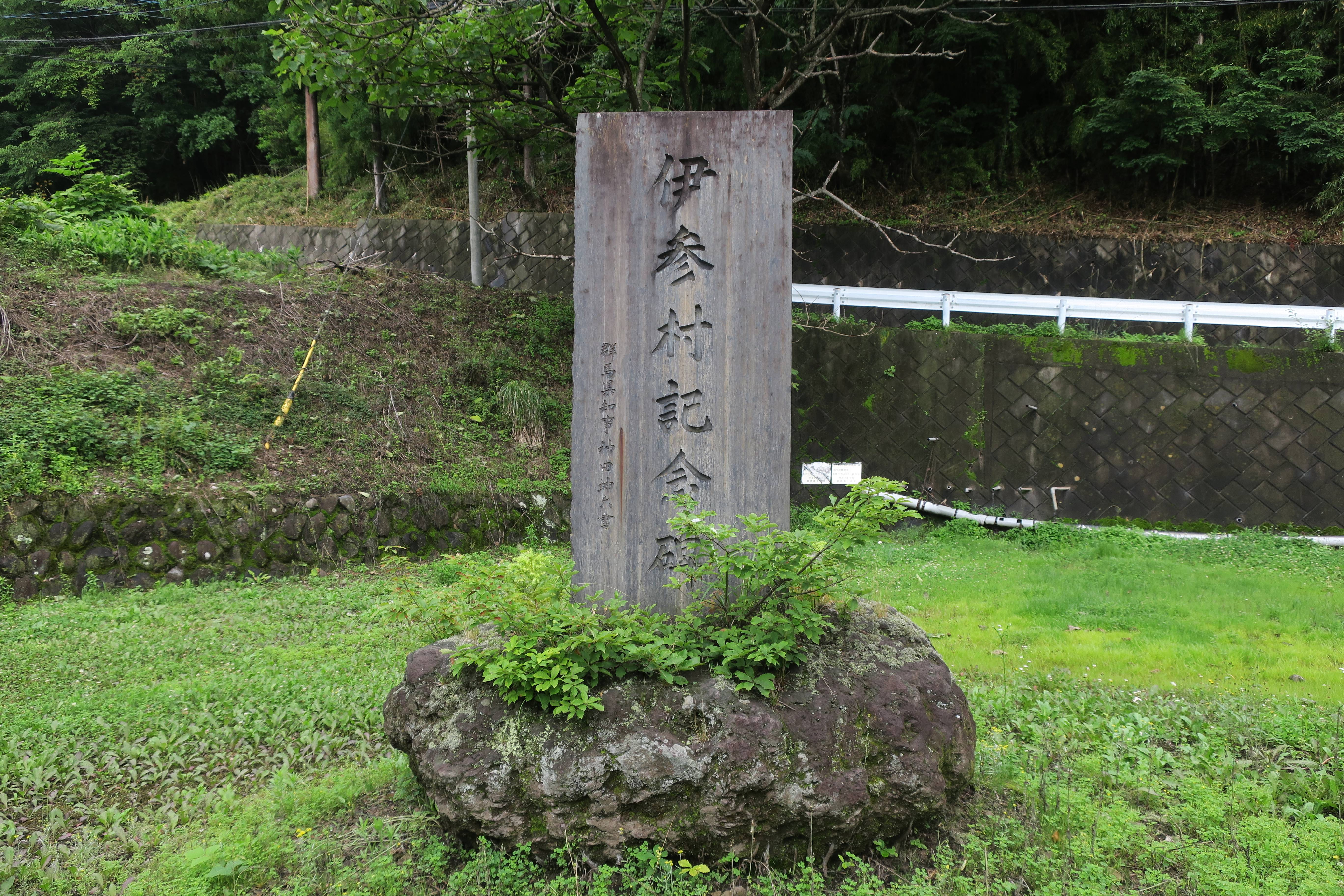 Isama village monument (Nakanojō, Gunma).